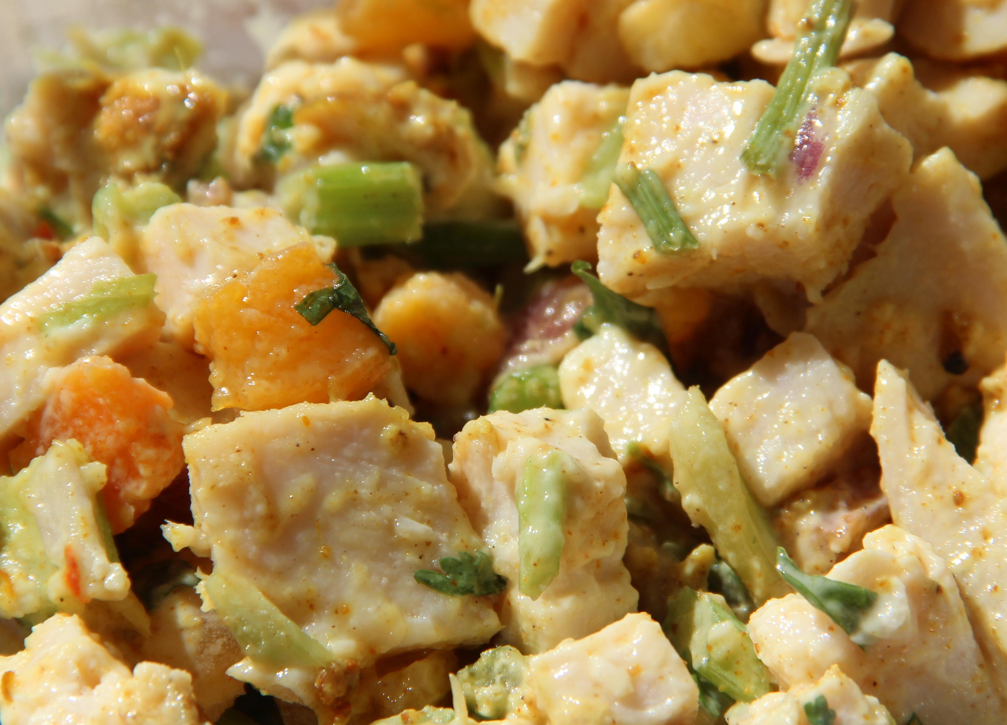 Boar's Head curry chicken salad